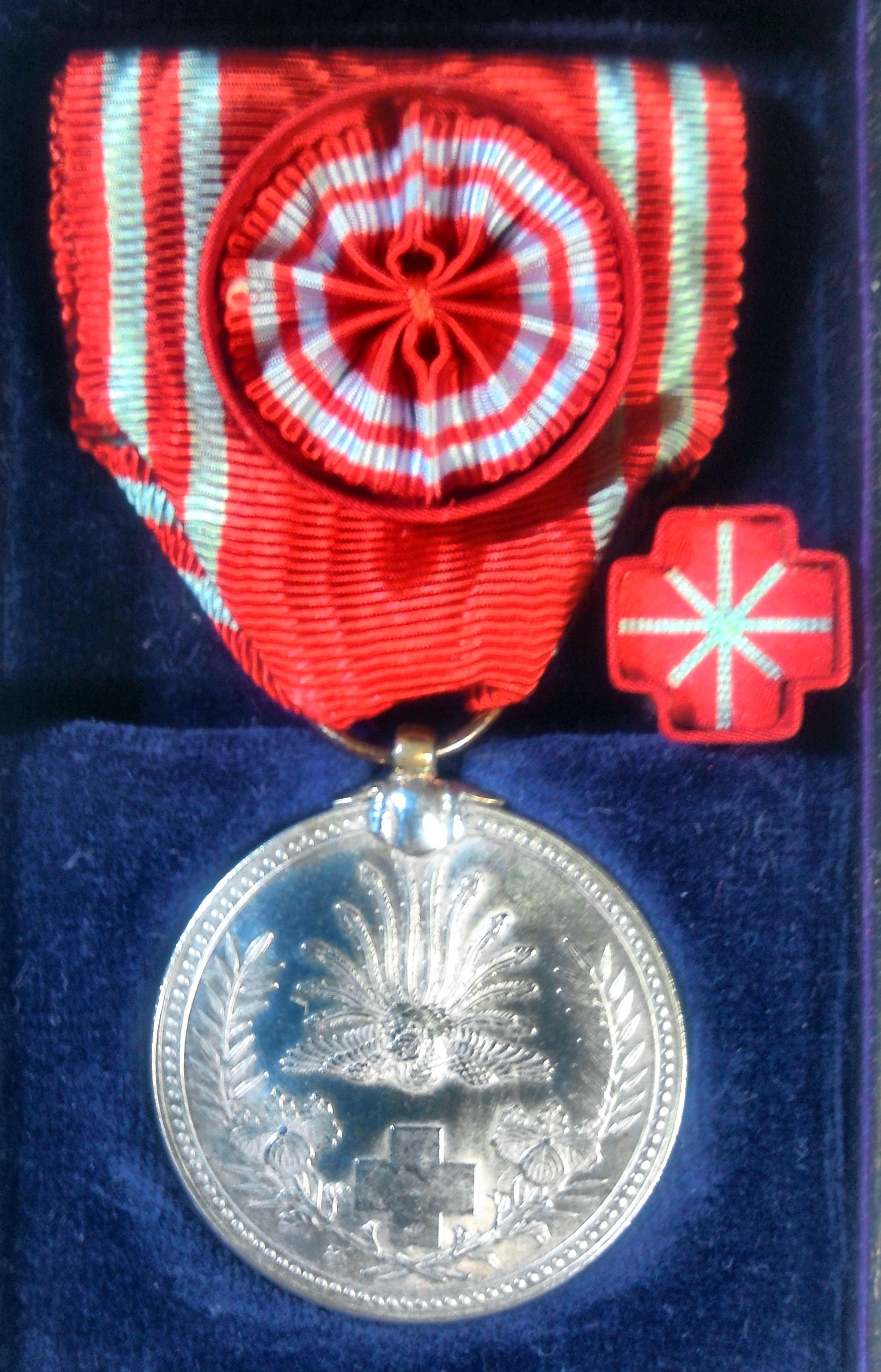 Special membership medal of Japanese Red Cross Society